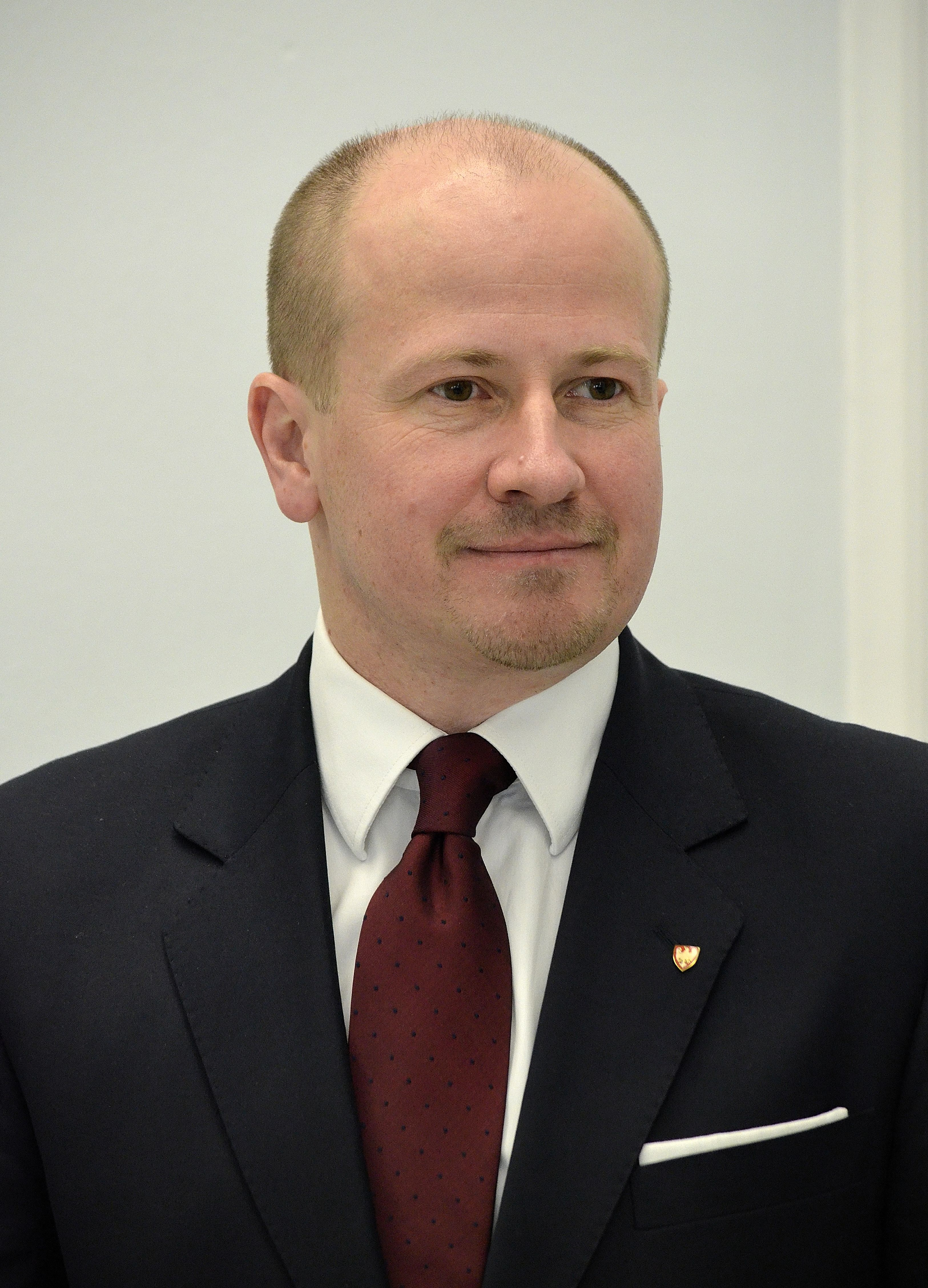 Polish MP Bartłomiej Wróblewski in the Sejm